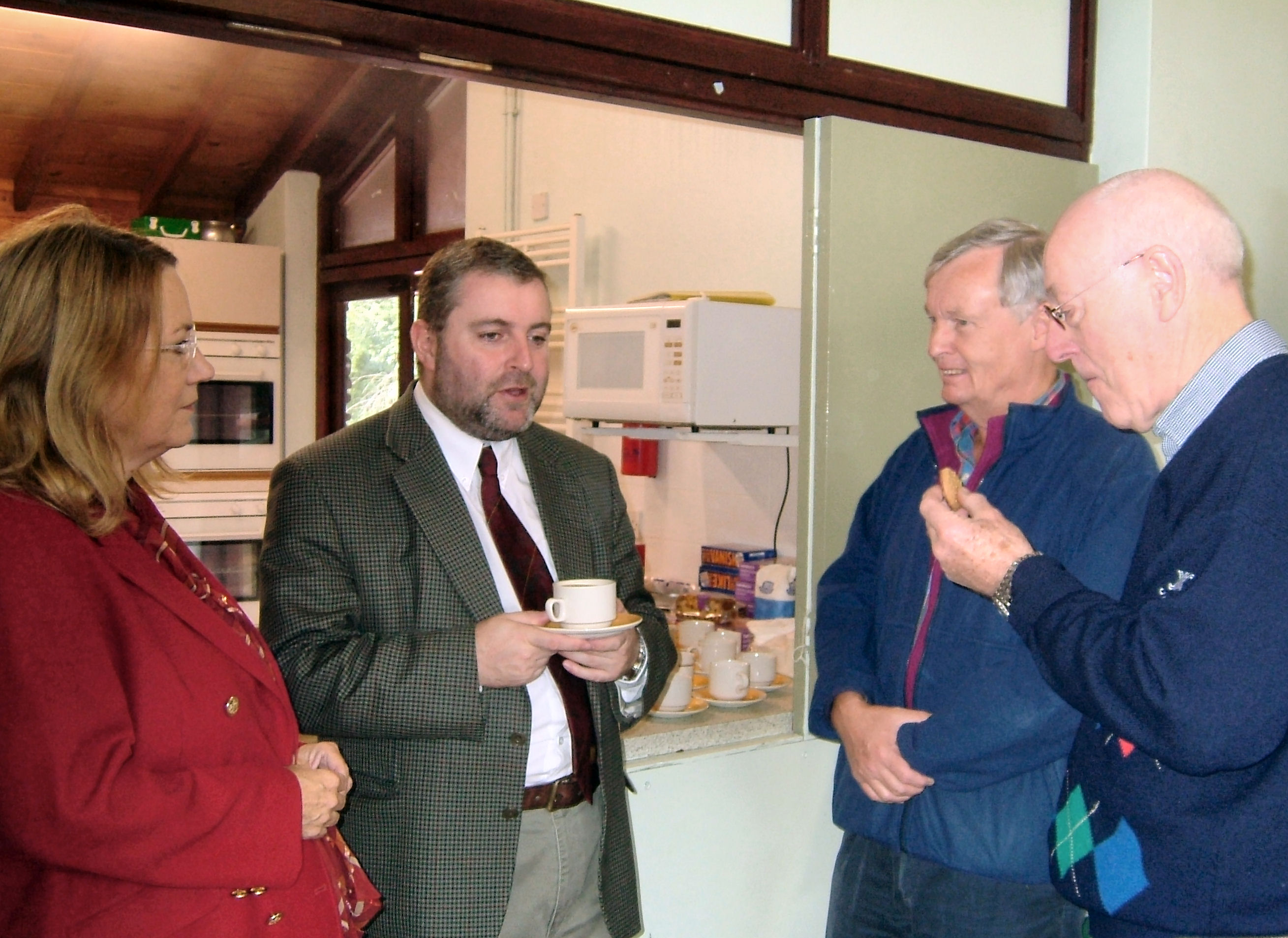 Tony Clarke MP at Milton Malsor village hall 2003 in discussion with residents about the Village Plan 2003